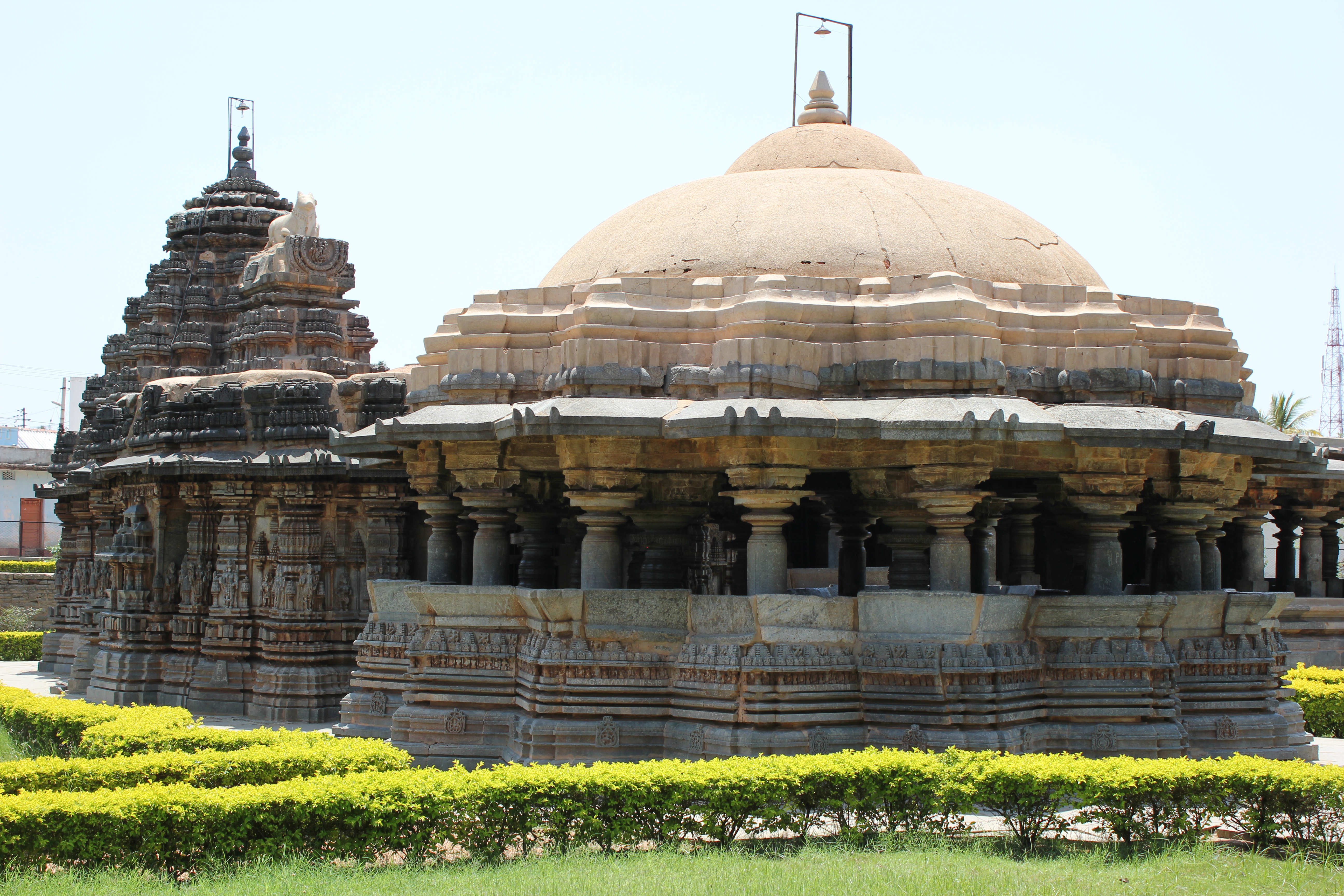 This photograph was taken by self (Dinesh Kannambadi) at the Ishvara temple (also spelt Isvara or Ishwara) in Arasikere, Hassan district, Karnataka state, India. The templei was built in 1220 AD during the rule of the Hoysala Empire King Veera Ballala II.